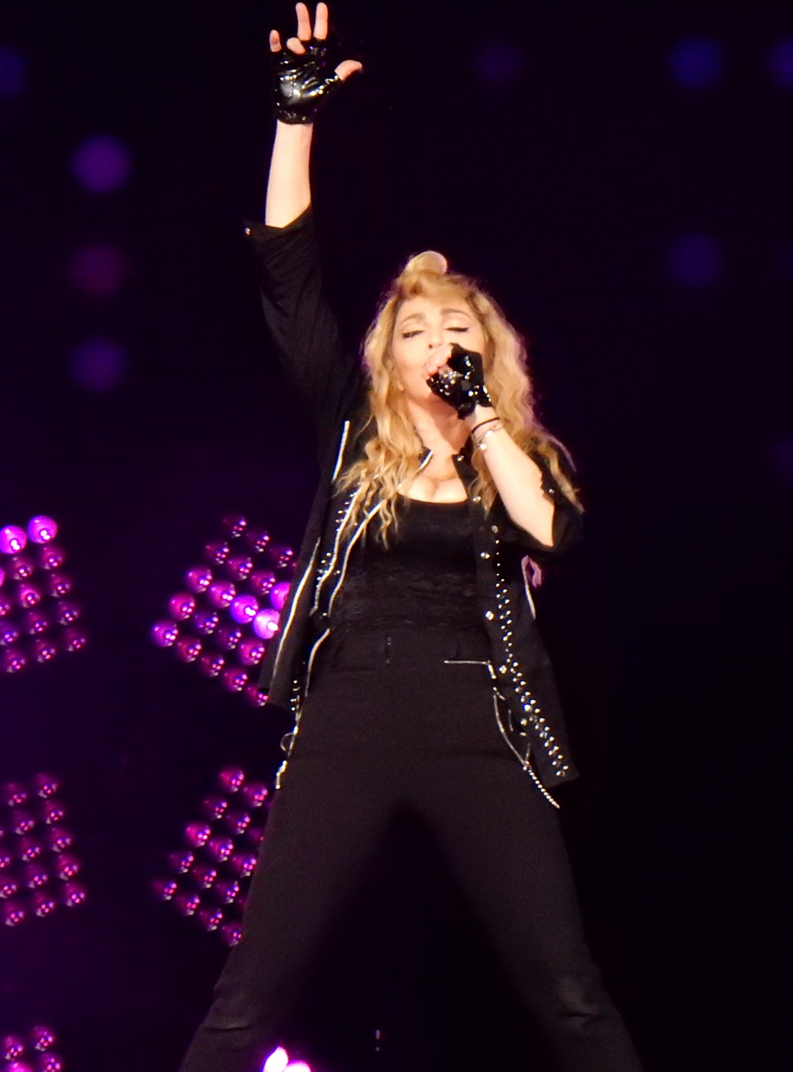 Madonna - Rebel Heart Tour 2015 - Paris 2